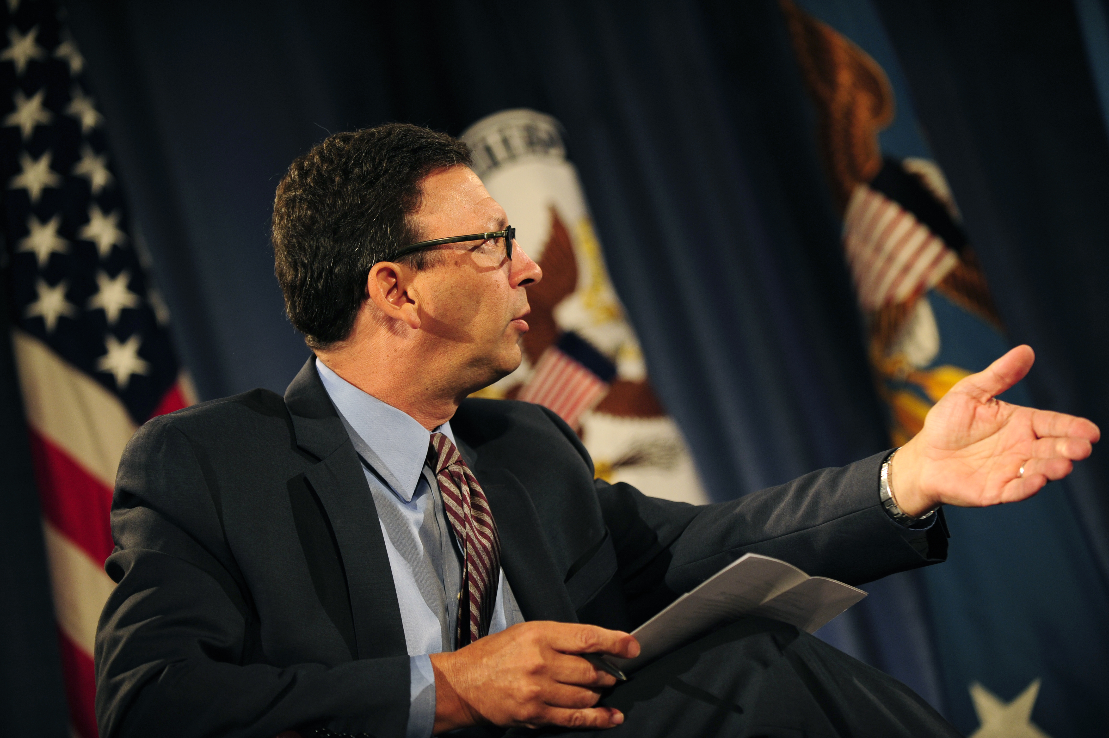 Frank Sesno, director of the School of Media and Public Affairs at George Washington University, moderates a televised conversationon defense issues with Defense Secretary Leon E. Panetta and Secretary of State Hillary Rodham Clinton at National Defense University in Washington, D.C., Aug. 16, 2011.